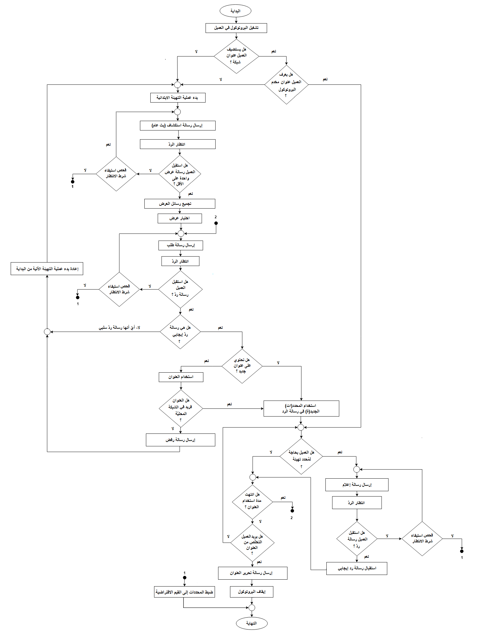 A Flowchart for the work of Dynamic Host Configuration Protocol (DHCP) client. Timers (T1) and (T2) are ignored when the lease is renewed. In addition to that, This algorithm assumes that the lease is not infinite, in order to simplify the mechanism of work.